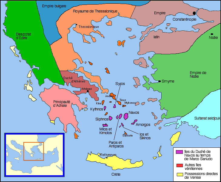 Duché de Naxos au temps de / Duchy of Naxos at the time of Marco Sanudo